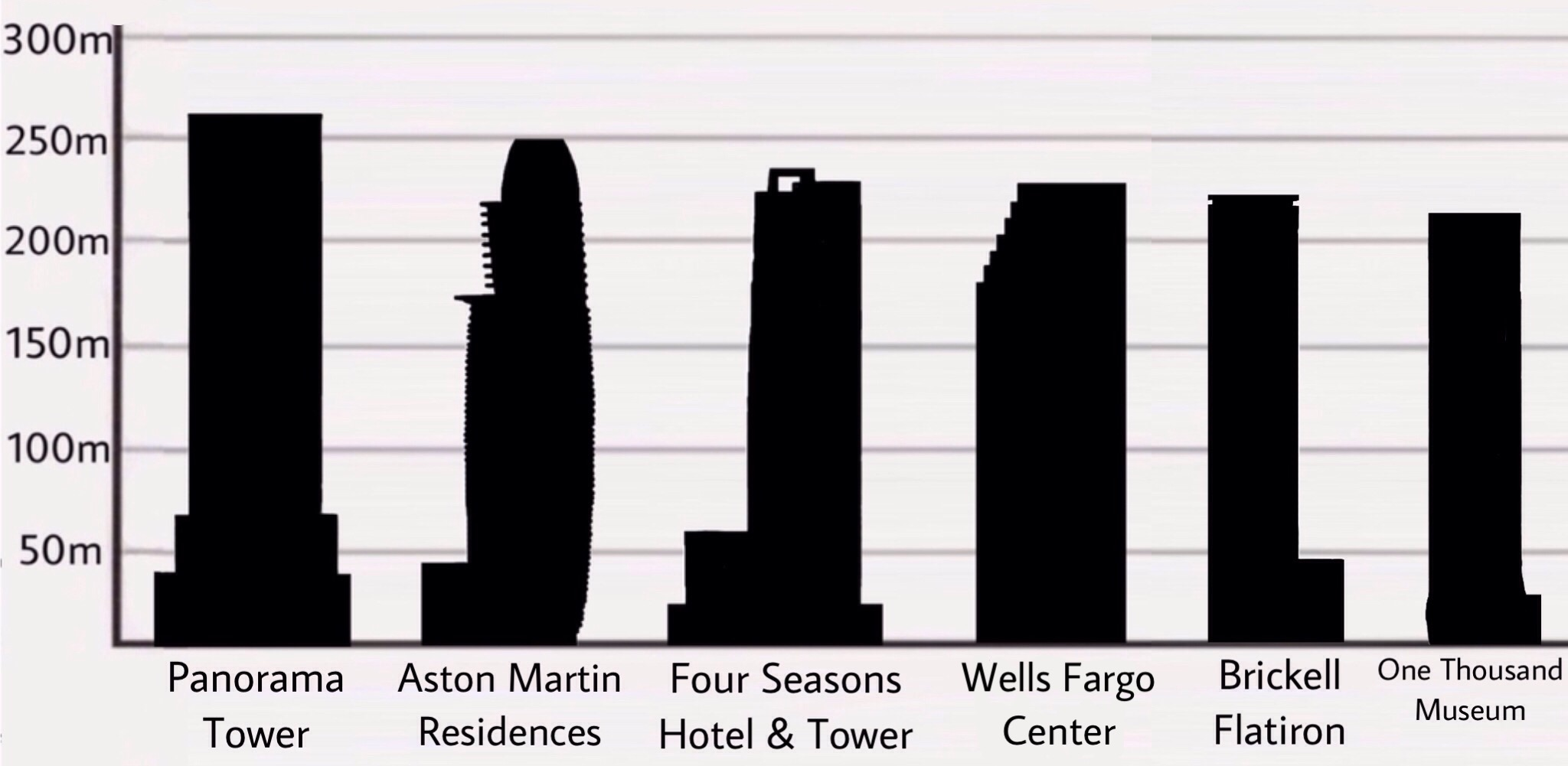 Comparison of the six tallest skyscrapers in Miami. (In 2020 the Aston Martin Residences are still under construction.)